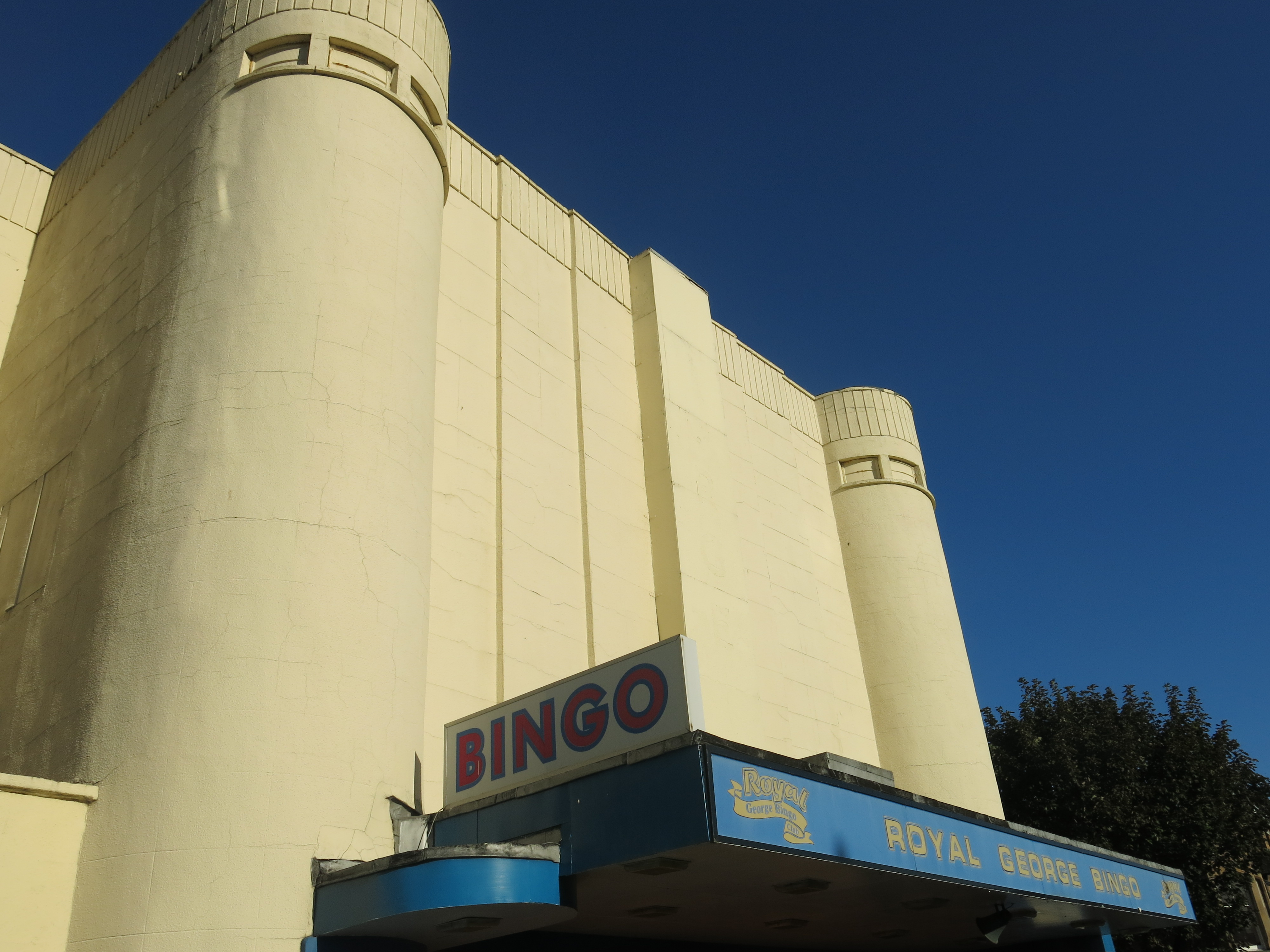 The Royal George Bingo Hall, Portobello. Formerly the George Cinema and the County Cinema.